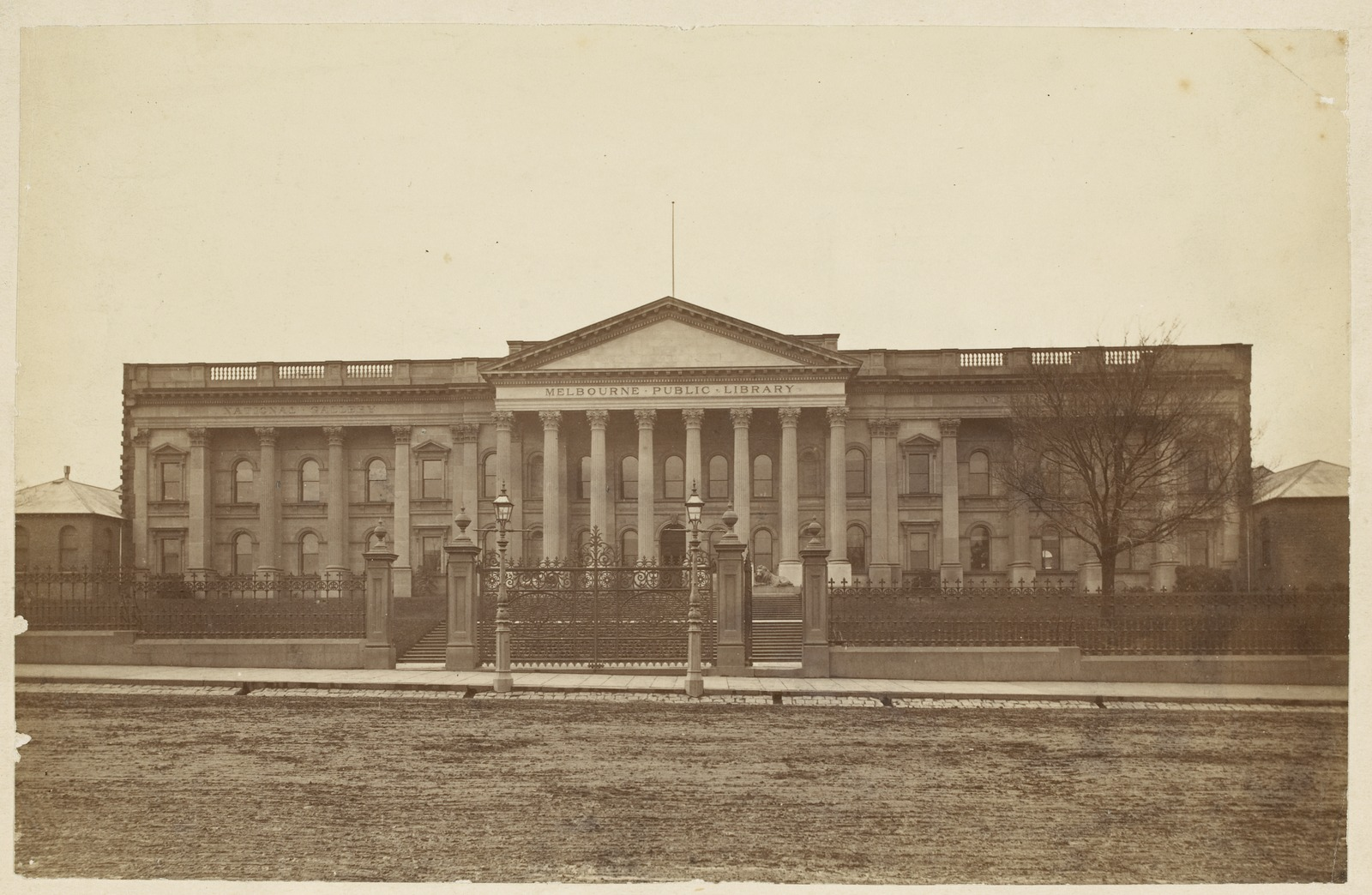 Library facade facing Swanston street, ca. 1875.